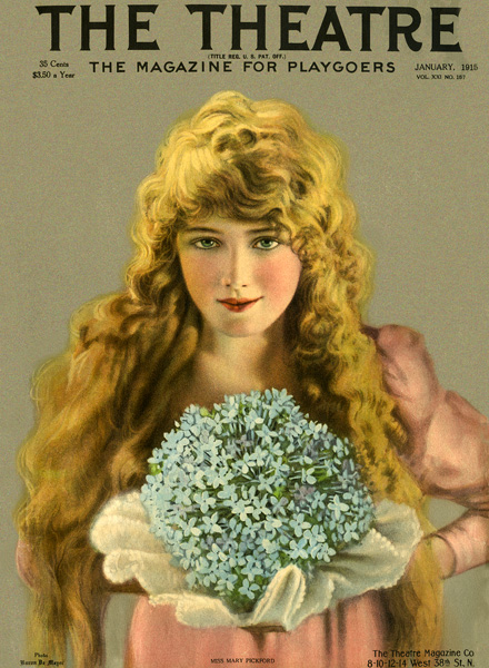 Mary Pickford on the January 1915 cover of The Theatre